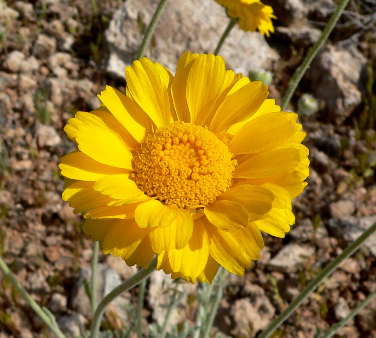 Photo of Baileya multiradiata (desert marigold) in Red Rock Canyon, Nevada